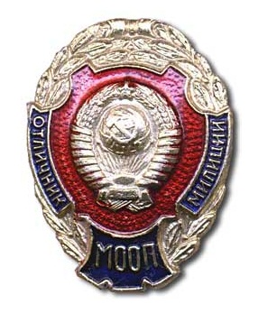 Badge Excellent Worker of Militsiya (Police) USSR